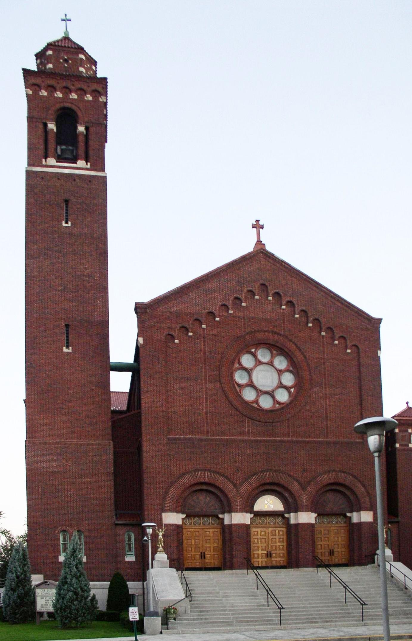 The front of the basilica at the Basilica and Shrine of Our Lady of Consolation in Carey, Ohio